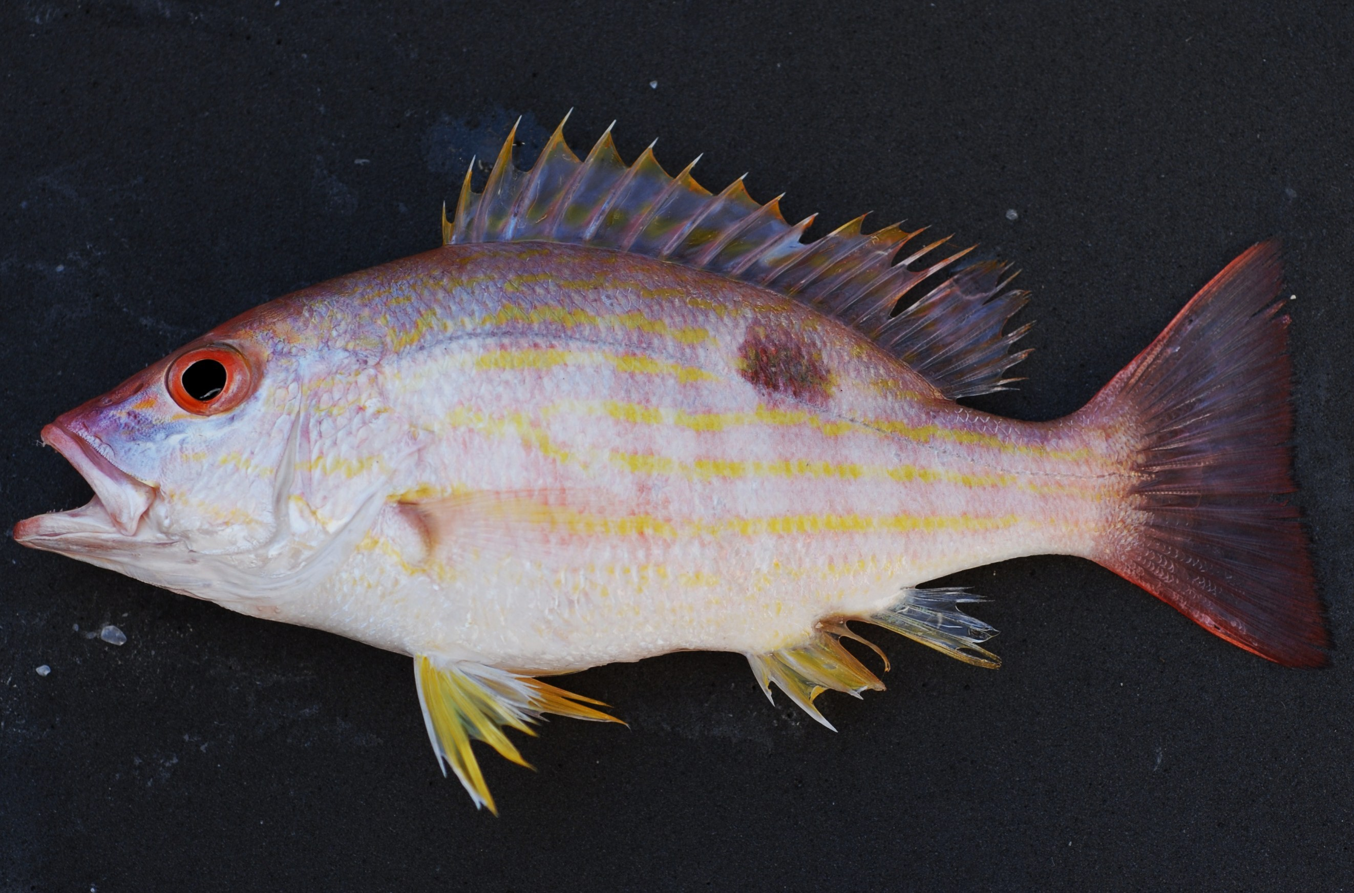 Lane snapper (Lutjanus synagris) . Gulf of Mexico.